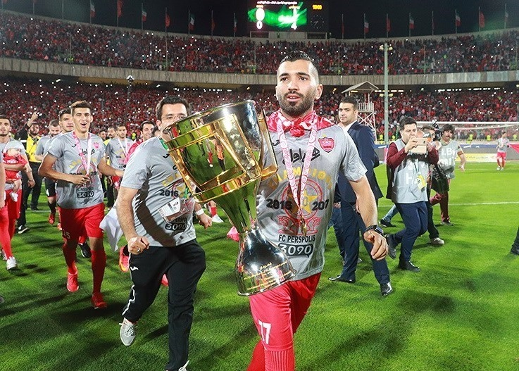 Persepolis F.C. title winning ceremony